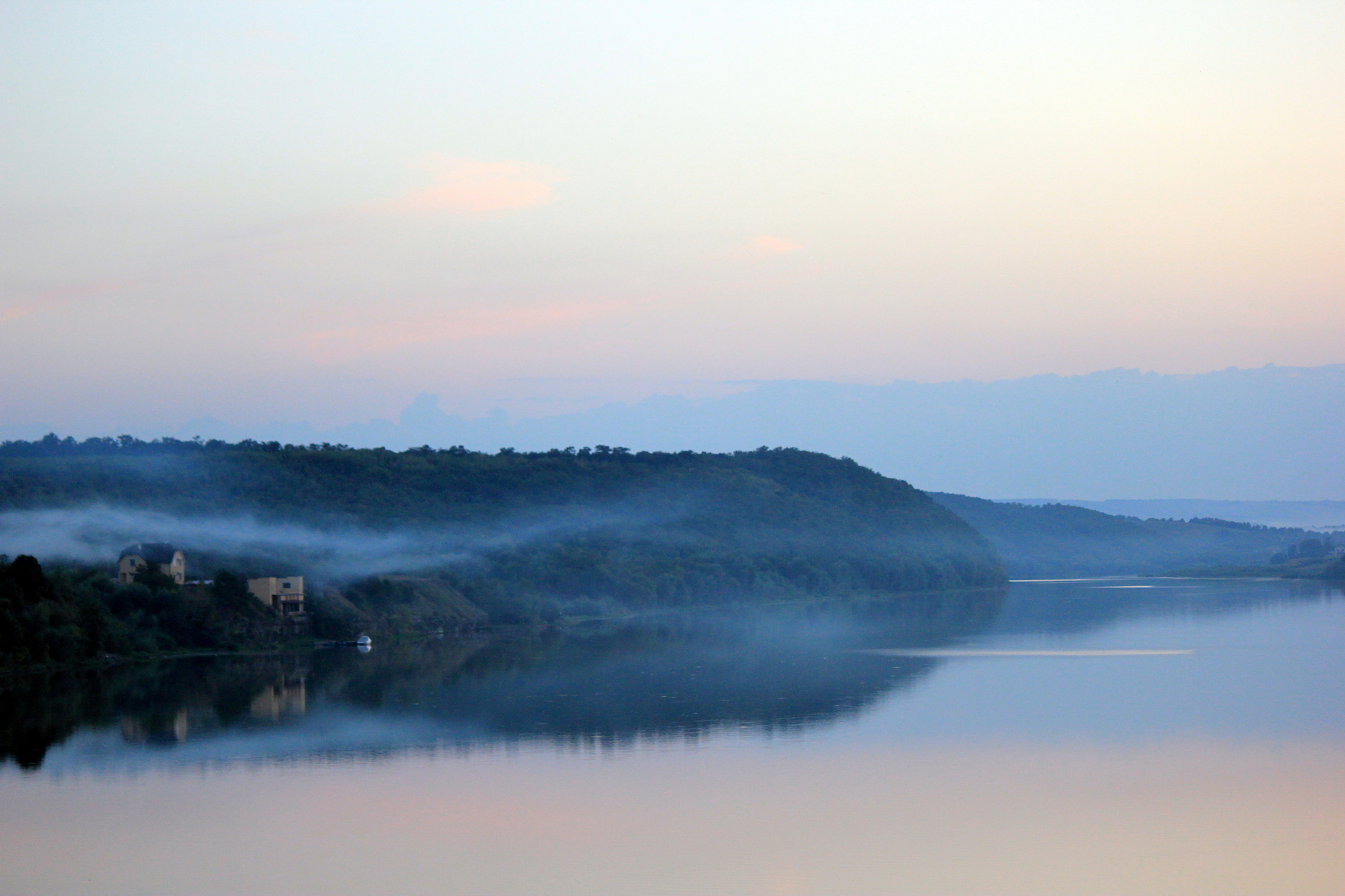 River Dniester near Khotyn, Ukraine.